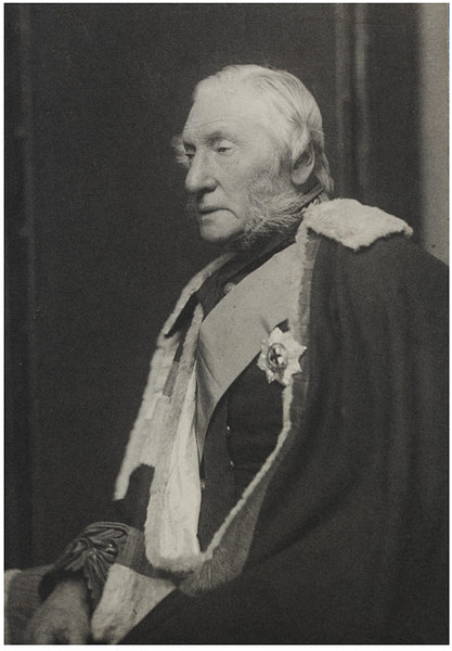 Portrait of the Sixth Duke of Northumberland, Portraits of many persons of note photographed by Frederick Hollyer, Vol. 3, platinum print, 1886 Victoria and Albert Museum, London, museum no. 7829-1938 (Link)